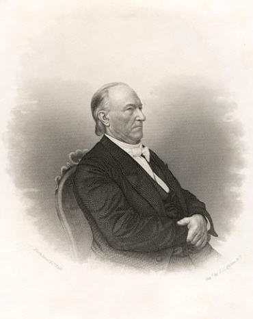 Henry Slicer, 32nd, 35th, and 37th Chaplain of the Senate: 1837-1839, 1846-1850, 1853-1855